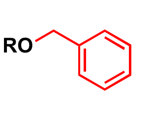 General benzyl protected alcohol